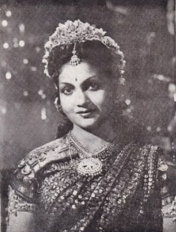 Actress Anjali Devi in Tamil Film Mangaiyarkarasi 1949